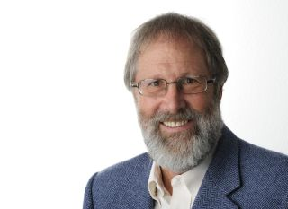 Portrait of Neal R. Norrick